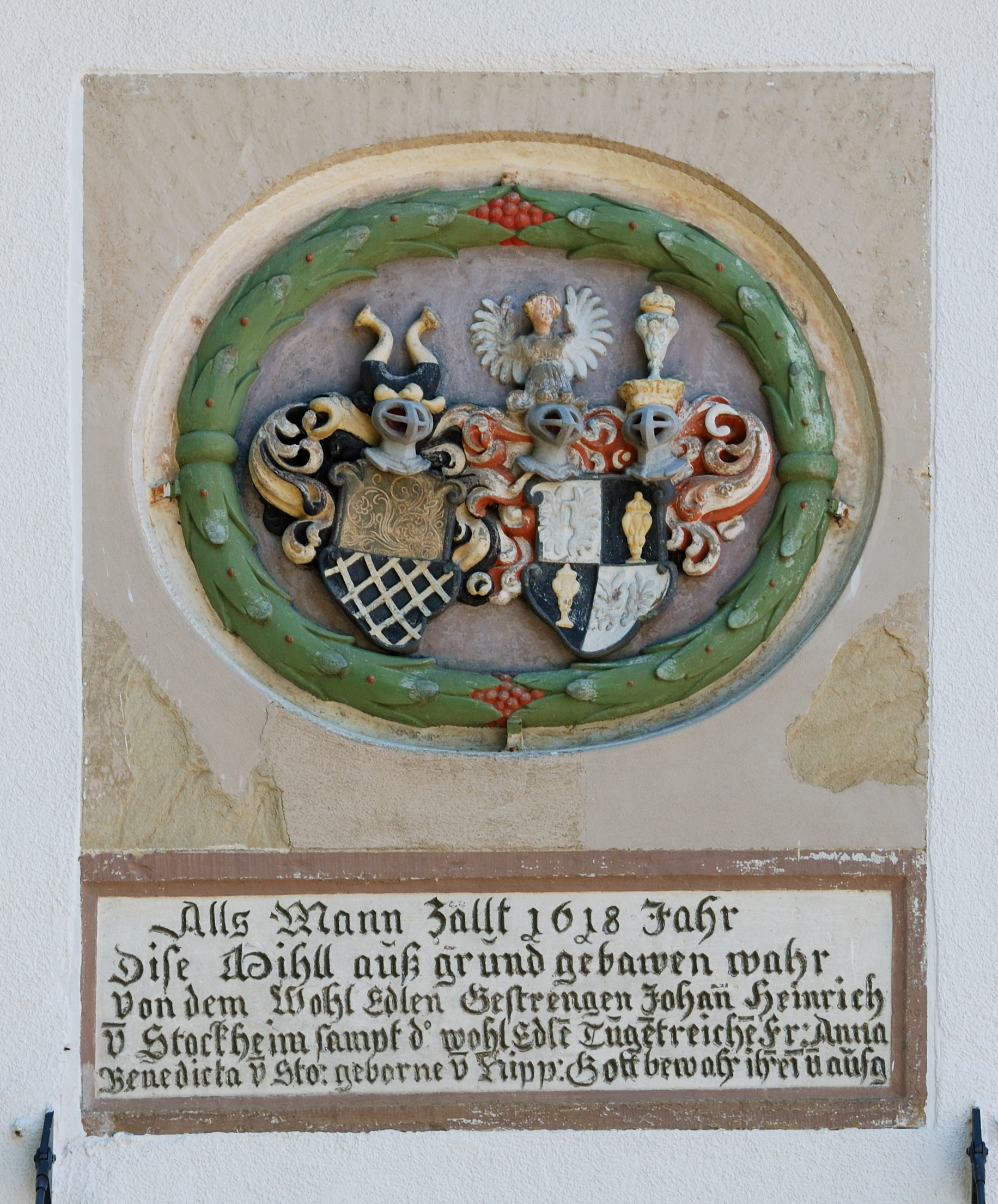 Coat of arms above the entrance to the Bruckmühle (a former flour mill) in Schwieberdingen in Southern Germany.